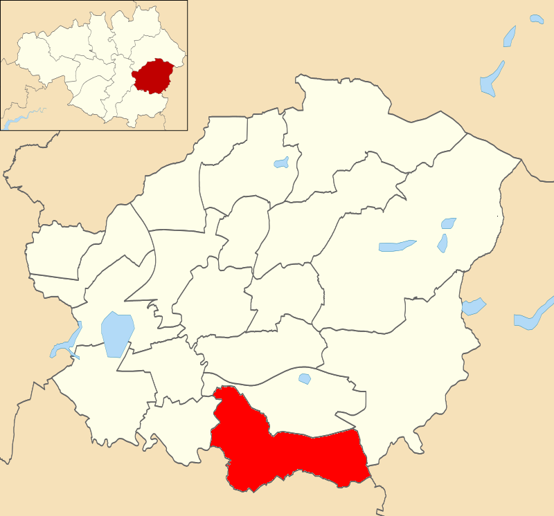 Map showing location of Hyde Werneth Ward within Tameside Metropolitan Borough Council.